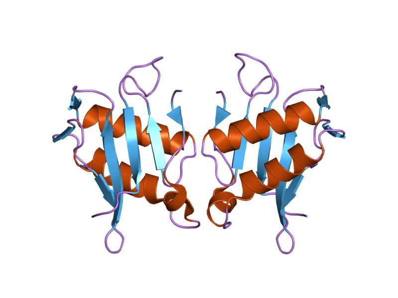 Cartoon representation of the molecular structure of protein registered with 1kpt code.